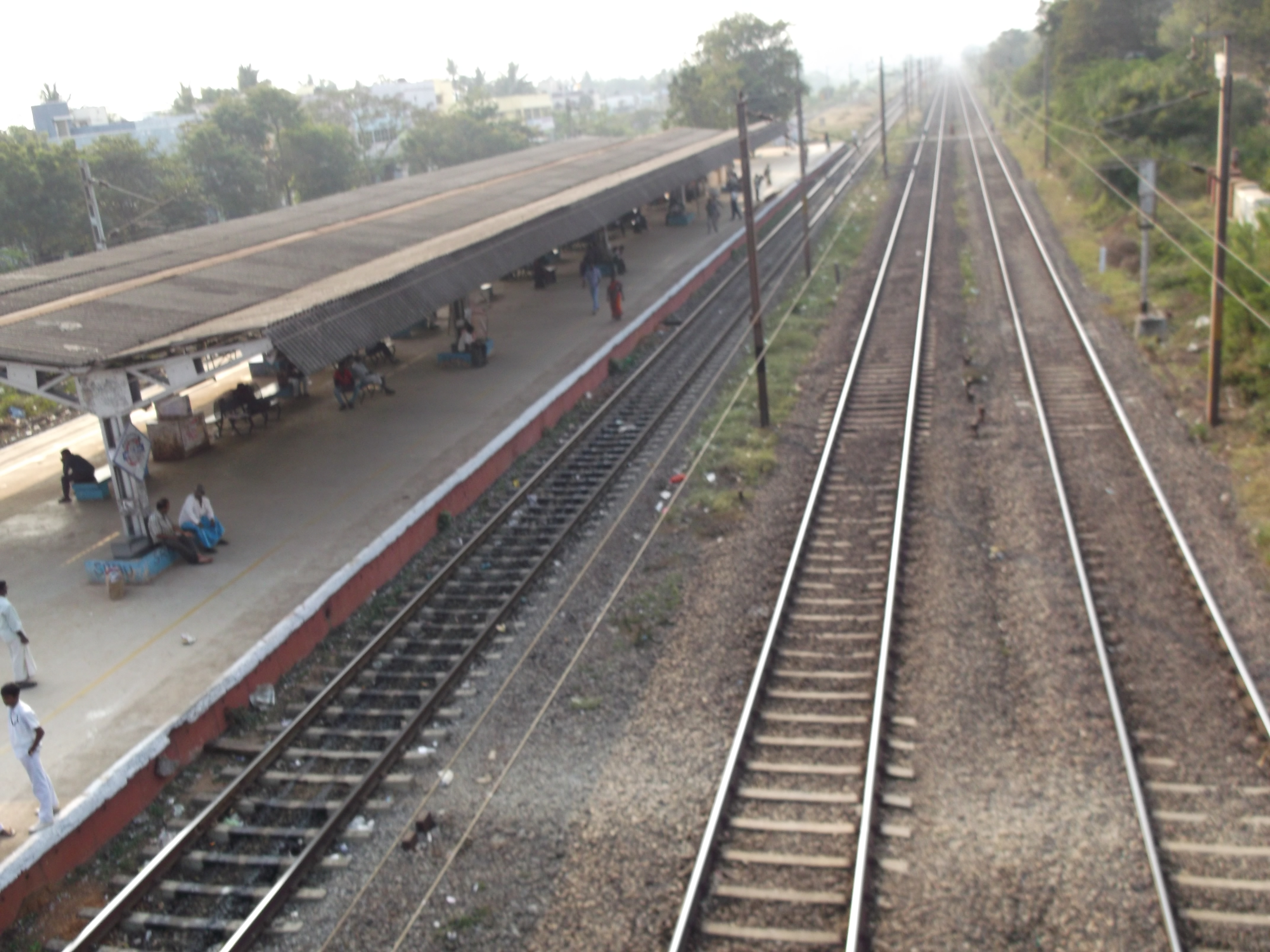 Chennai Suburban Railway, Thirumullaivoyil towards western side, taken on 28-Jan-2013 at 4.00 pm